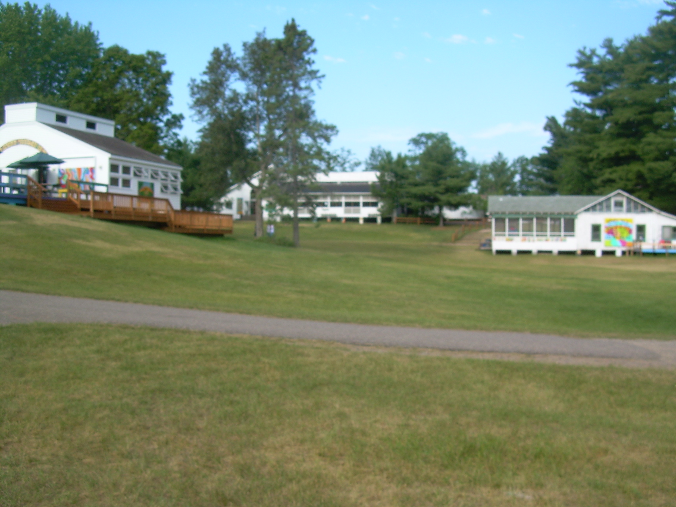 This is a picture of the kikar of Camp Ramah in Wisconsin with the old dining hall, taken in 2007.